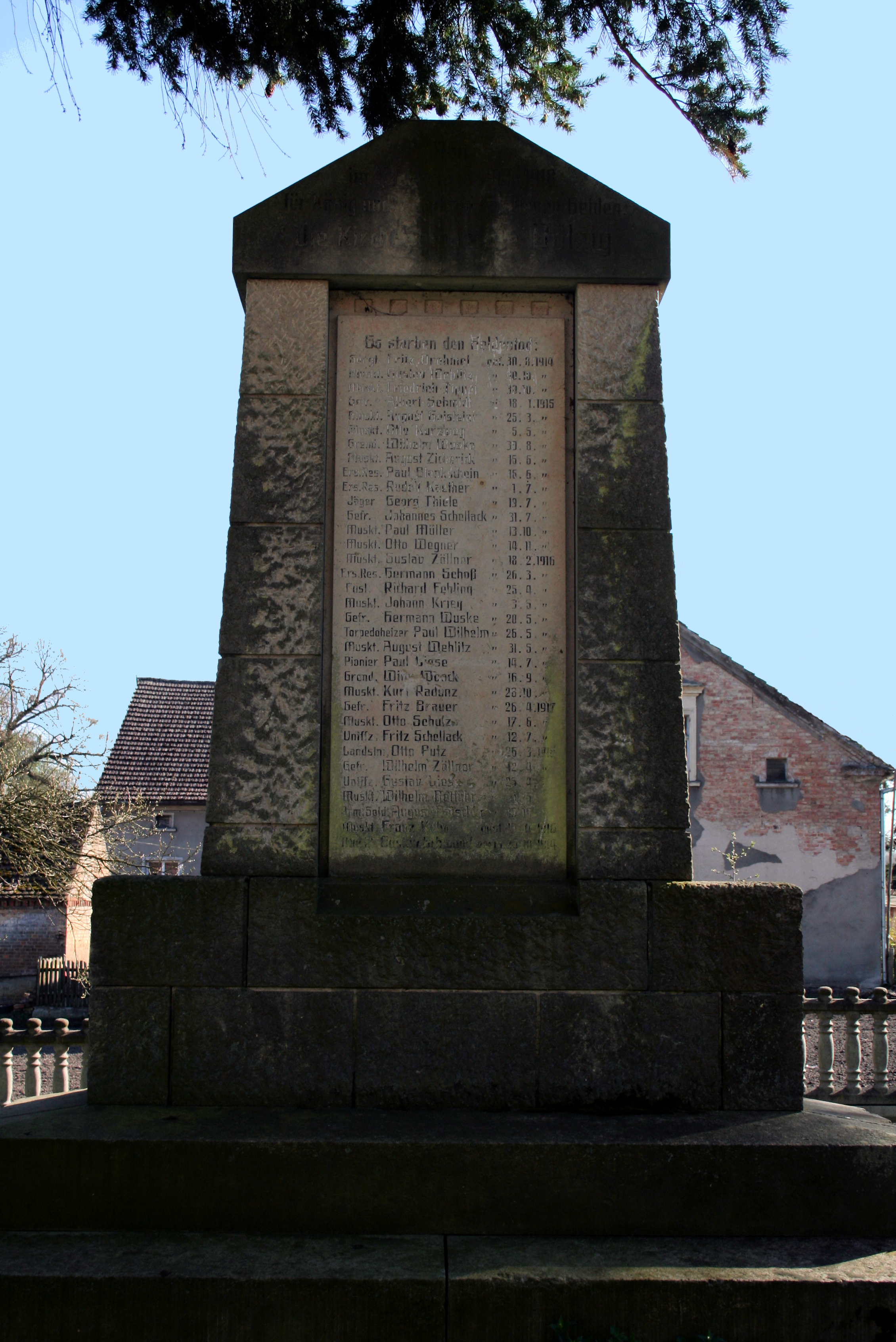 Monument of German soldiers killed during First World War, near church in Dolsk (West Pomerania)